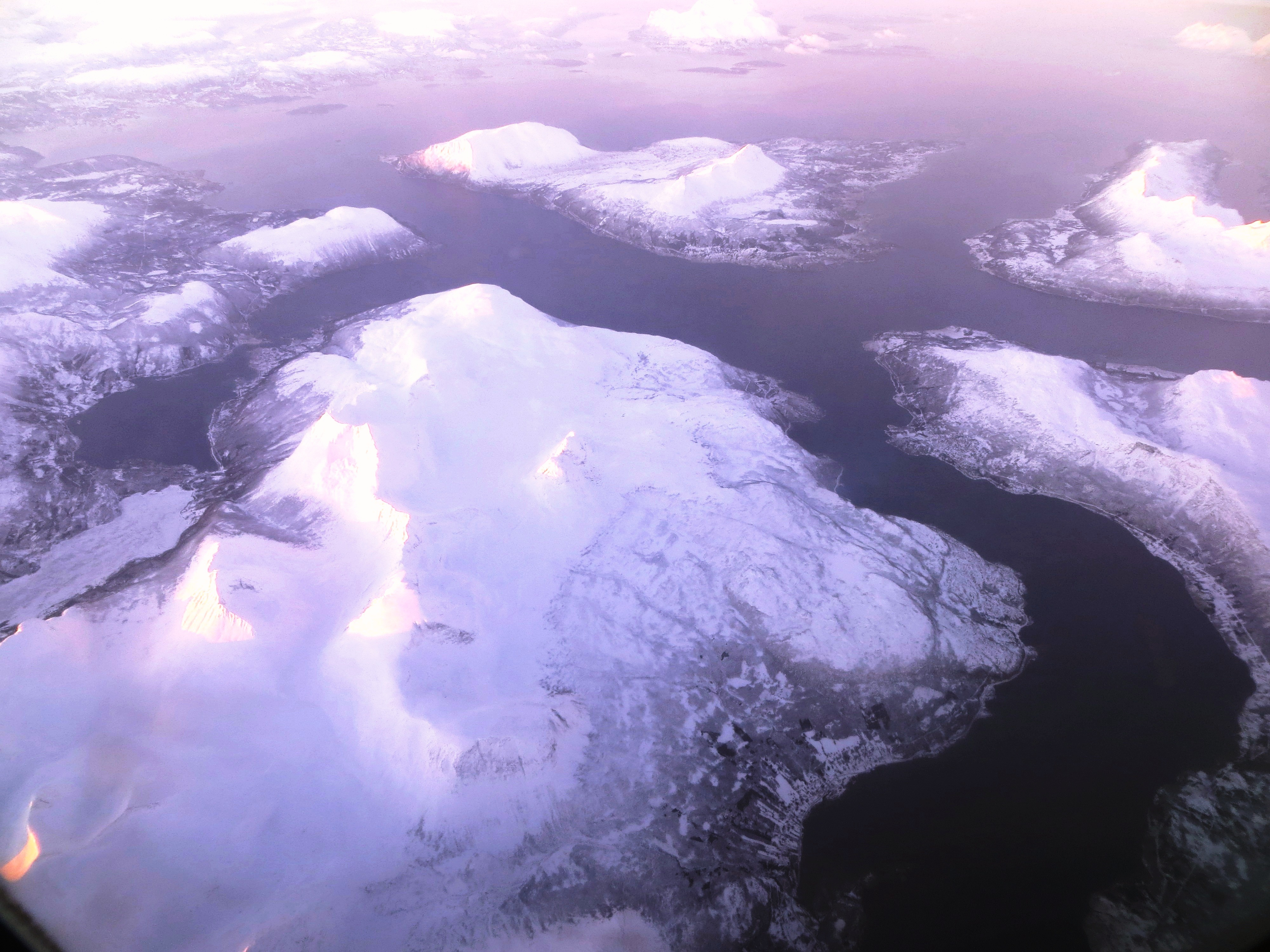 Aerial view from the east towards west, of Ibestad Municipality (islands) and Gratangen Municipality (mainland), in Troms county (Norway). The distinctive island in the fjord is named Rolla.